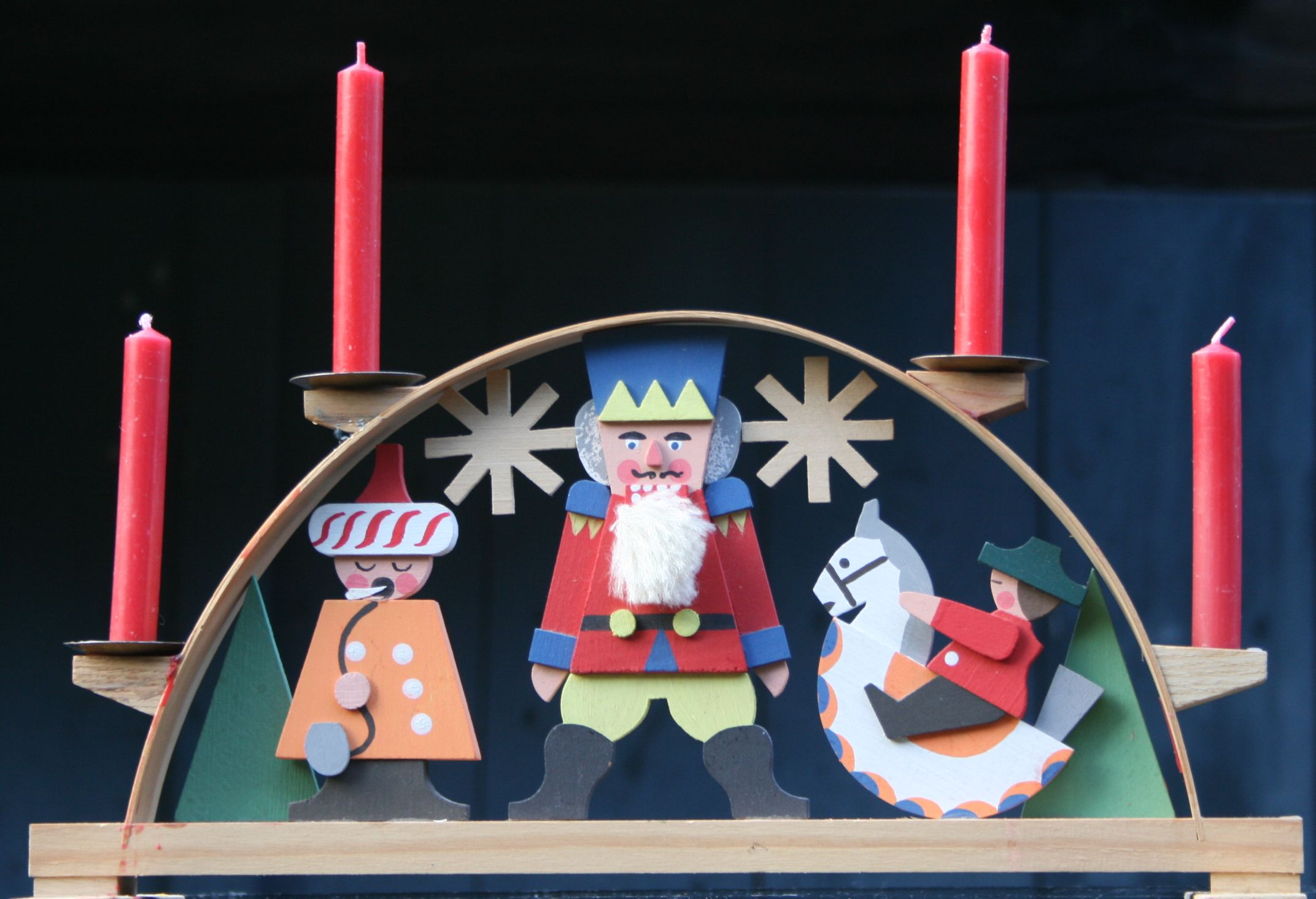 German Candle Arch from Ore Mountains - Handcraft. With real wax candles about 20 cm high(without candles), no electric light.